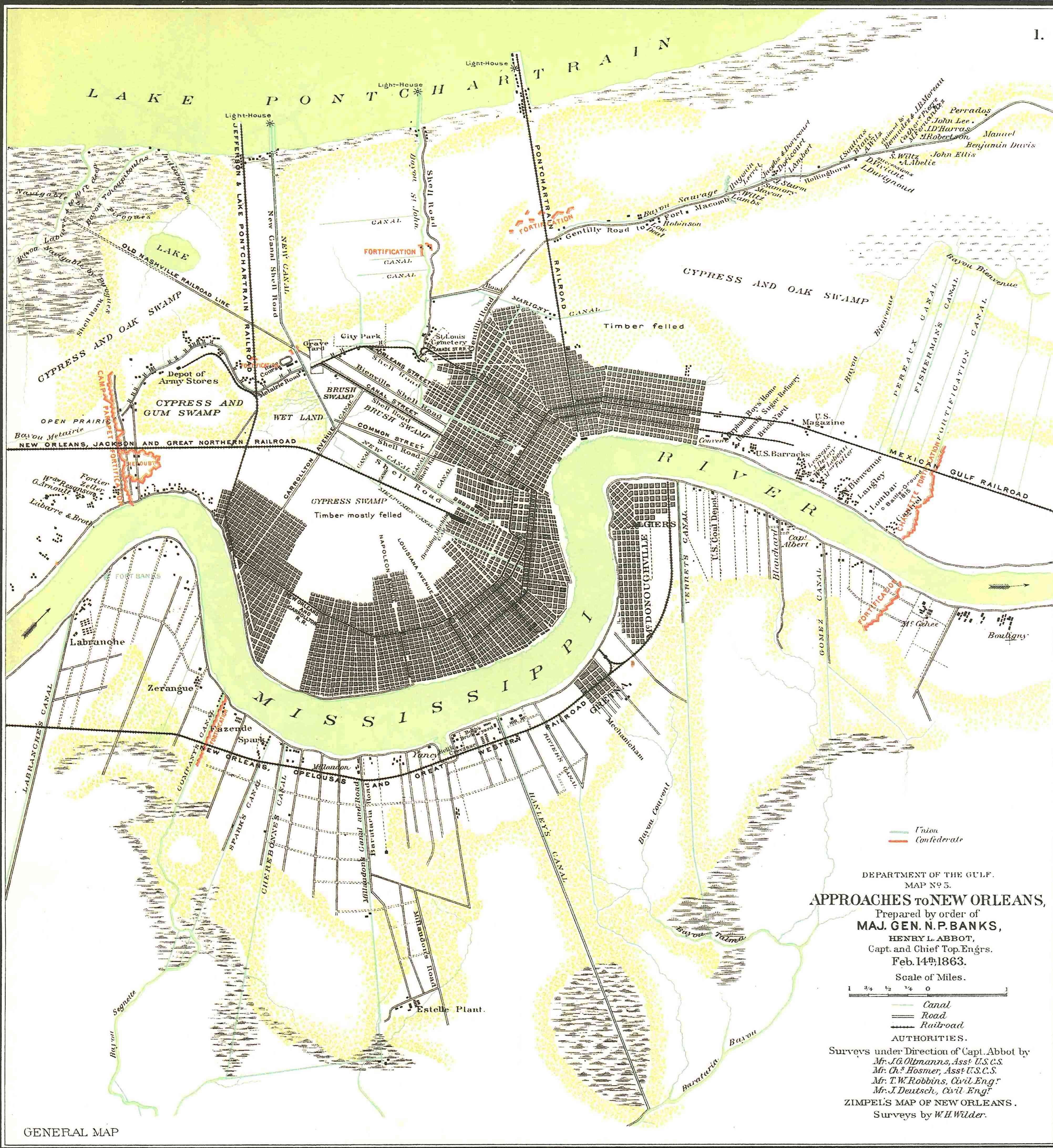 Department of the Gulf Map Number 5, Approaches to New Orleans prepared by order of Major General N.P. Banks, February 14th, 1863